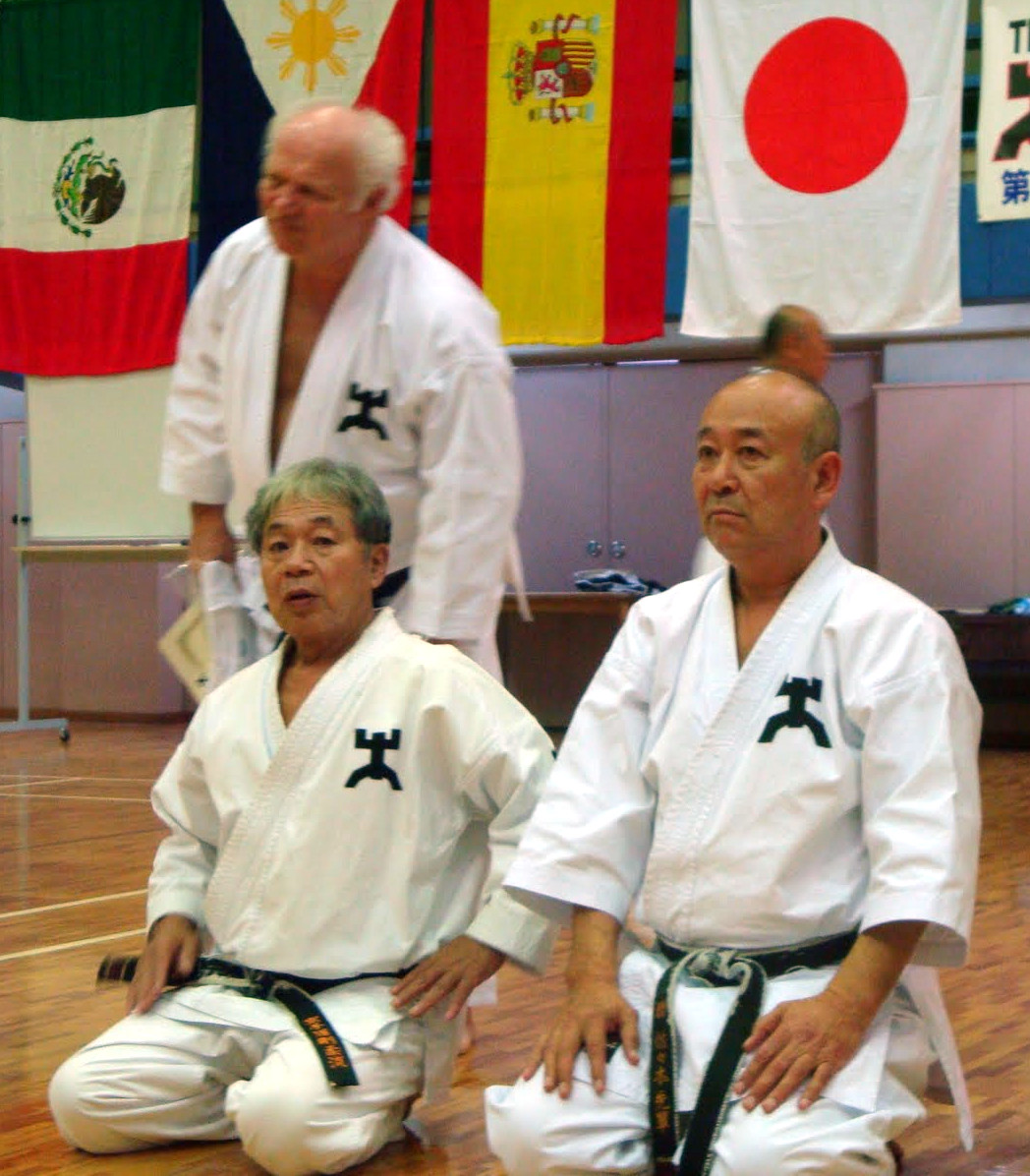 Shigeru Nagoya (sitting left), Toshiro Sasaki (sitting right) and Fritz Nöpel (standing left, behind Shigeru Nagoya) at 11th Karate-Do Goju-Ryu International Yuishin-Kan Kata Seminar in Oktober 2009 in Japan